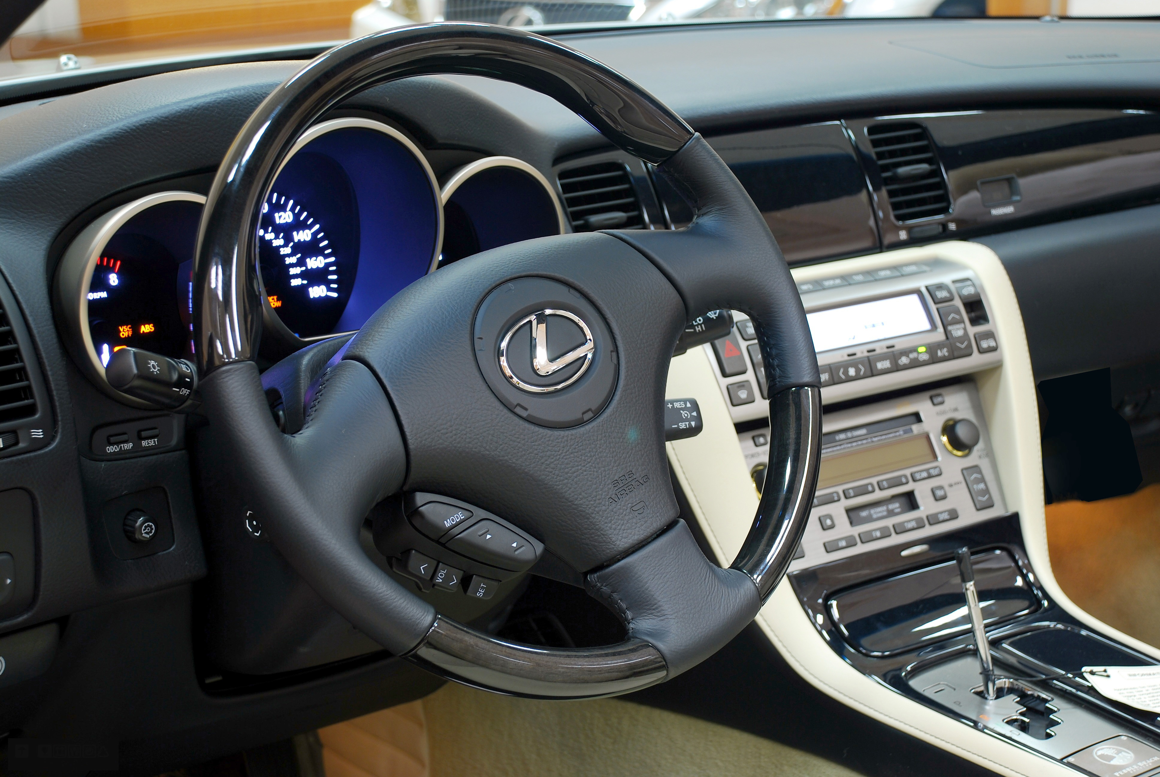 Lexus 2009 interior. Tampa International autoshow 2008. Florida.